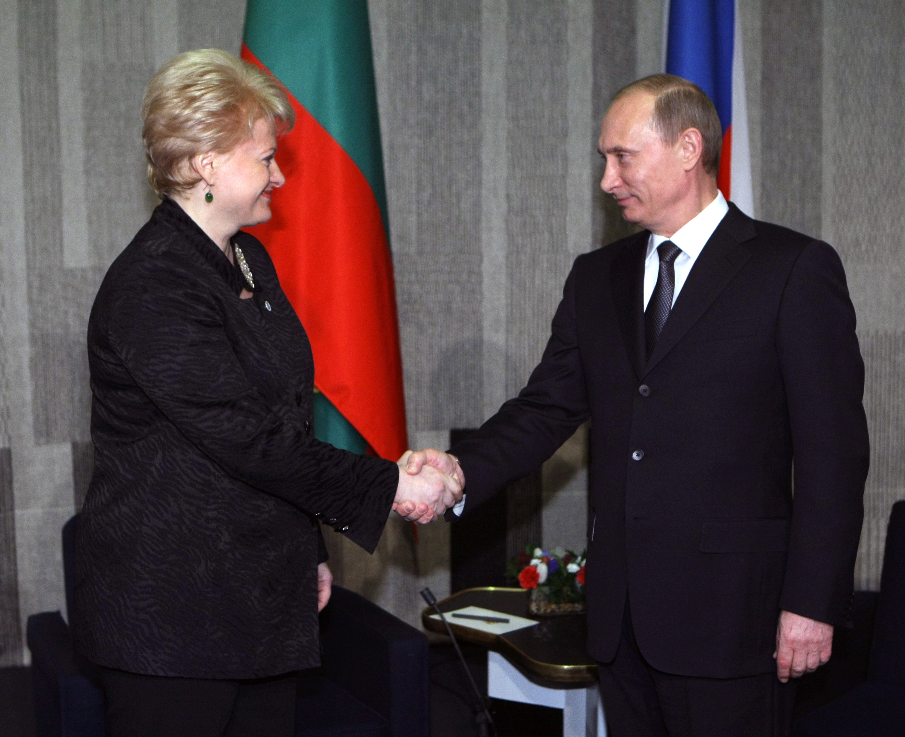 Prime Minister Vladimir Putin meets Lithuanian President Dalia Grybauskaite on February 10, 2010 in Helsinki, Finland